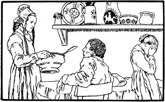 Illustration by Otto Ubbelohde to the fairy tale The Juniper Tree